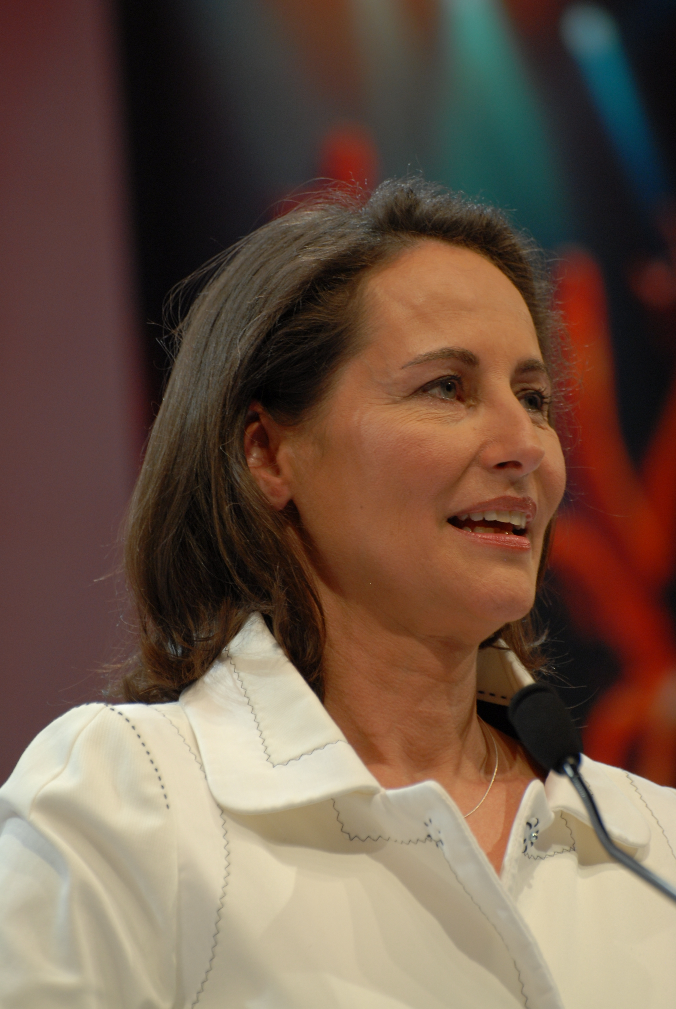 Ségolène Royal during her meeting in Toulouse on April, 19th 2007 for the 2007 presidential election.